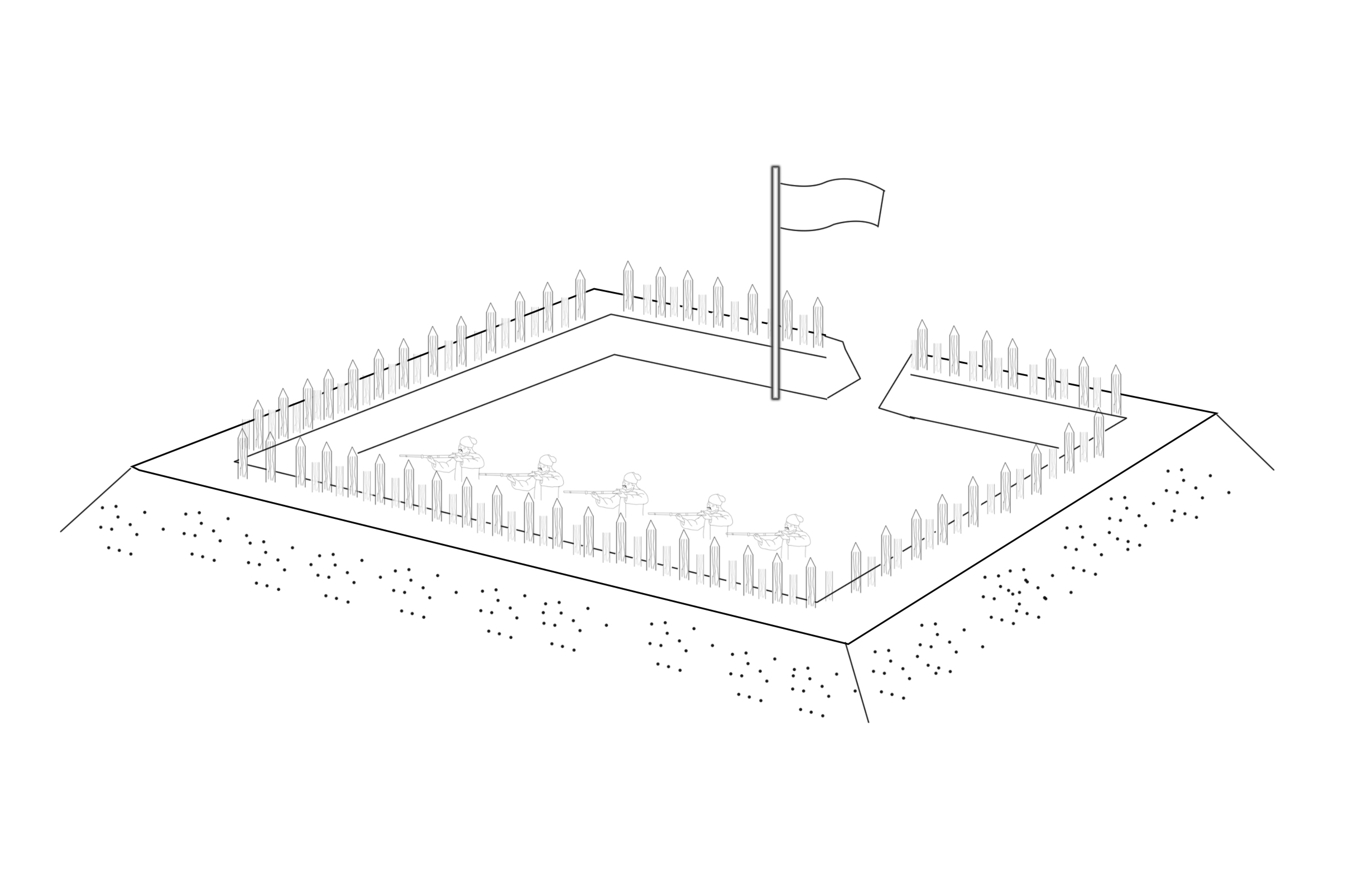 Square earth and palisade fortress made in final stage of battle of Ljubić near Morava river bank by Serbian commander Jovan Dobrača